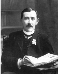 Photo of Alexei Aladjin, deputat of first Russian Duma in 1906